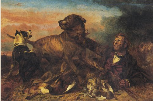 A poacher, his spoils spread on the ground, is pinned by the gamekeeper's Mastiff. The poacher's dog tries to defend his master.